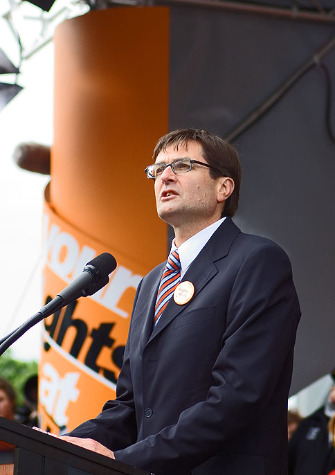 Greg Combet speaking at the Your Rights at Work rally in Melbourne, 15 November 2005 Taken by Anthony Agius.